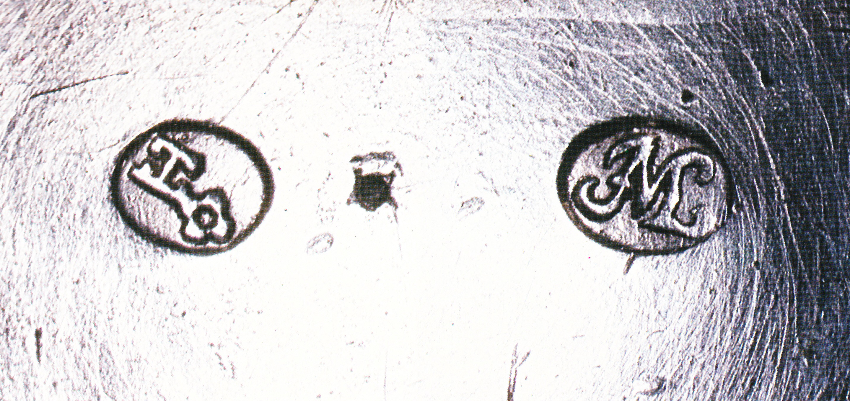 Silver-marks, Jacob Müller, Bremen (Germany), about 1690